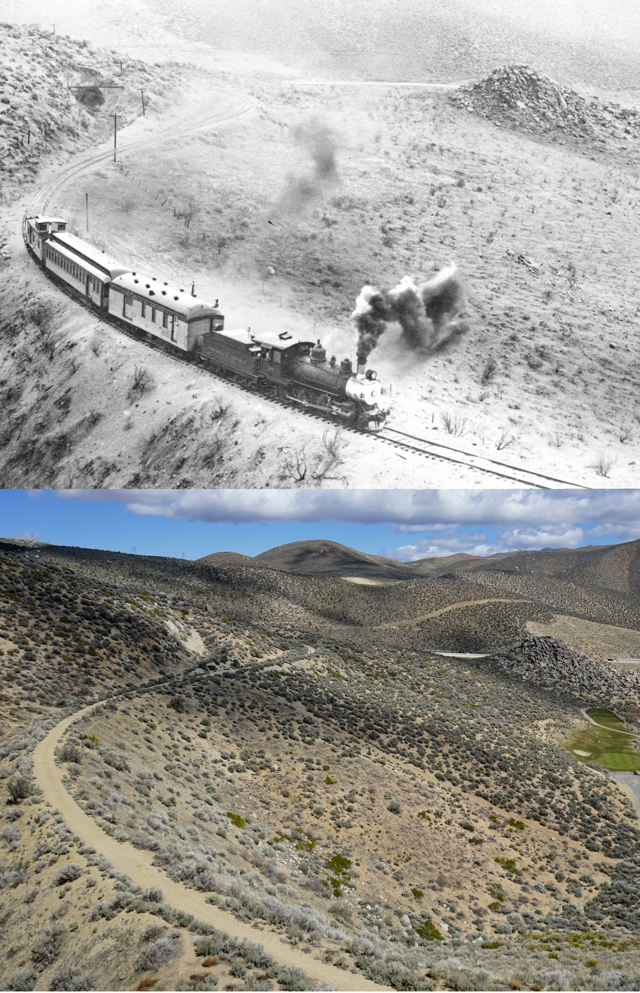 The old photo is probably from the 1940s. The collapsed tunnel is in the upper left and a shoo-fly was built around it.